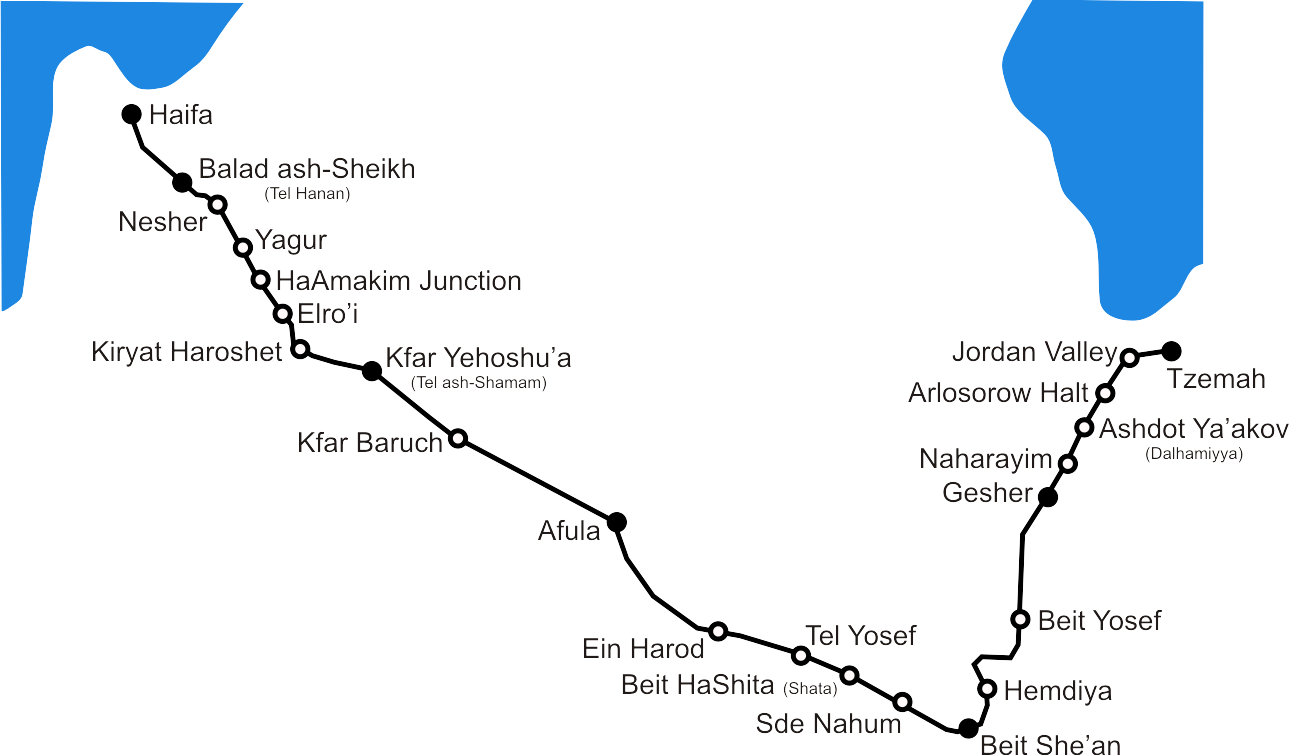 Map of the stations of the Jezreel Valley railway line - not to scale. This is an English version of the Hebrew version by Dovev from the Hebrew Wikipedia. The original image was released into the public domain by its author.